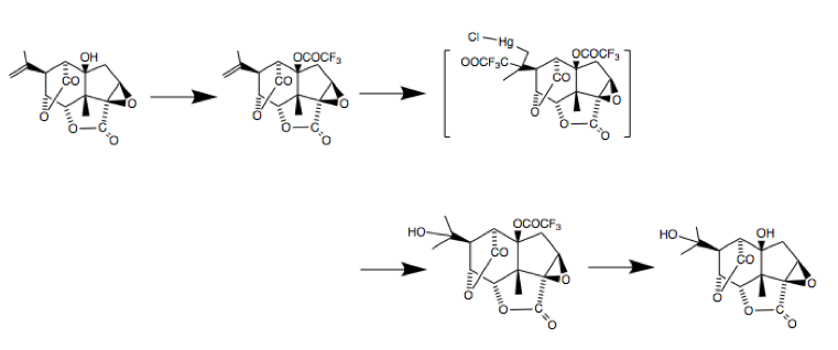 This image shows transformation of picrotoxinin to picrotin